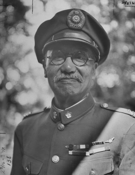 Former Warlord Yan Xishan in Kuomintang uniform, 1947